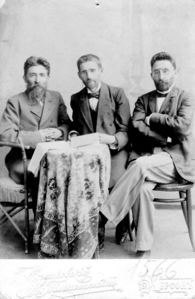 R-L: Ze'ev Volf Vladimir Dubnov, Eliezer Ben-Yehuda & Ya'acov Shertok, 1901